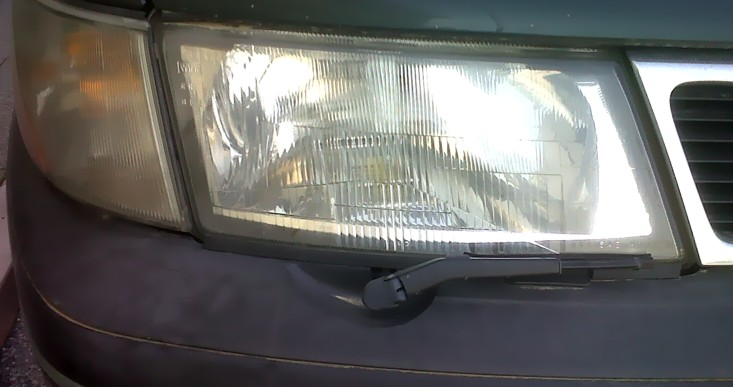 Headlamp cleaning